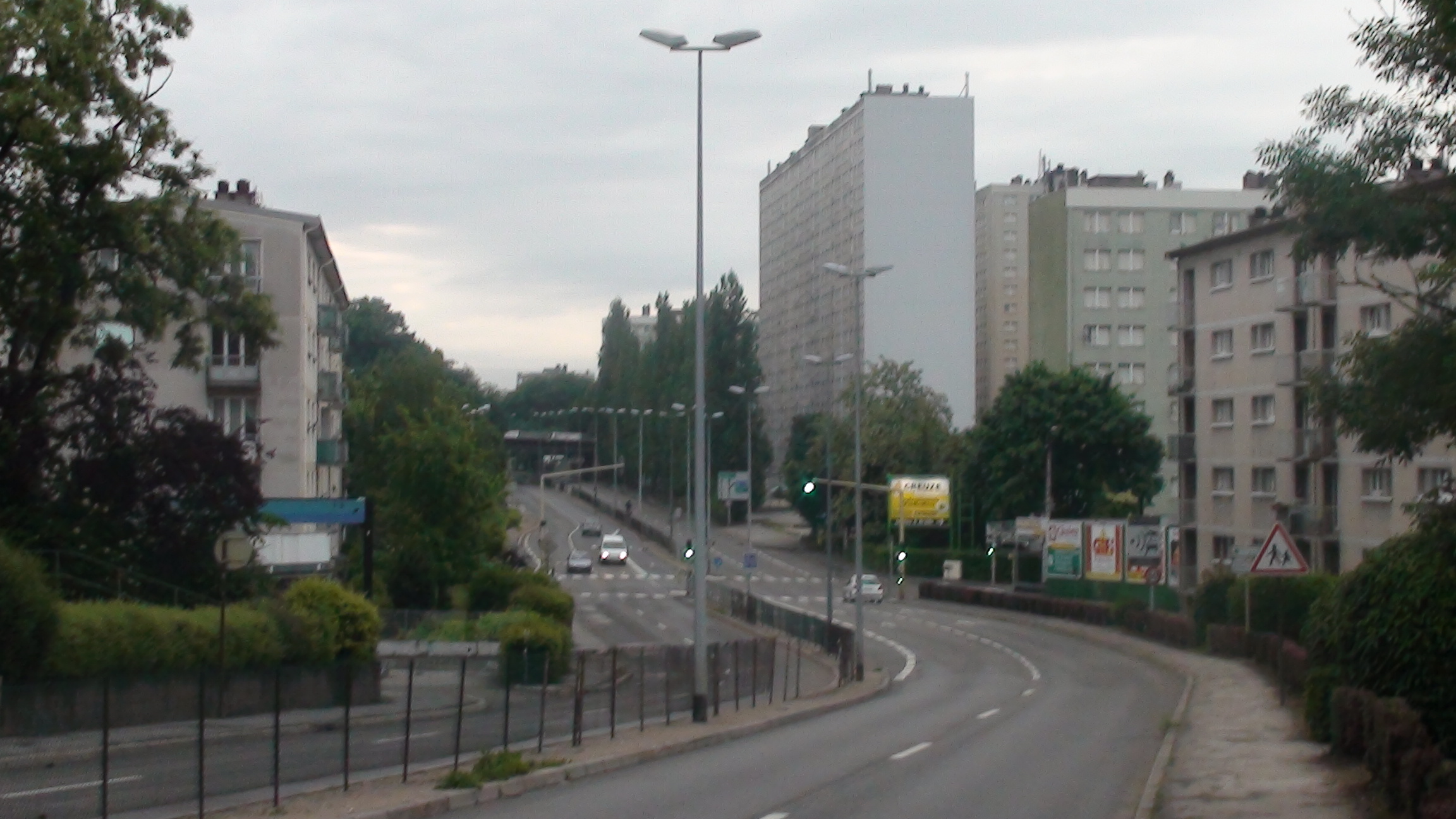 View of the road of Fontaine-Ecu, in Besançon (France)